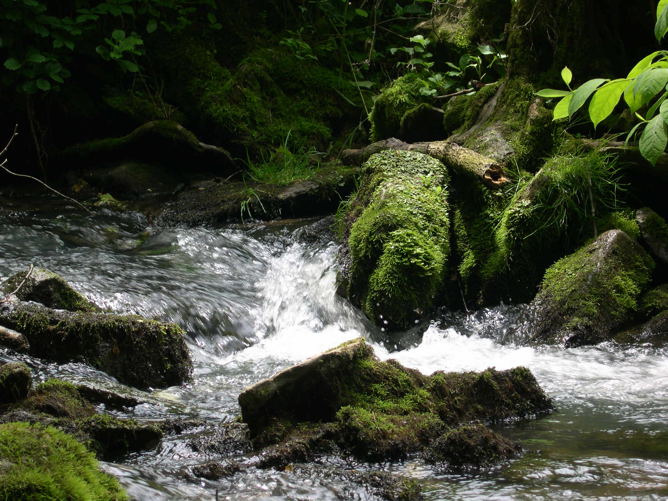 USA, Indiana, Spring Mill State Park